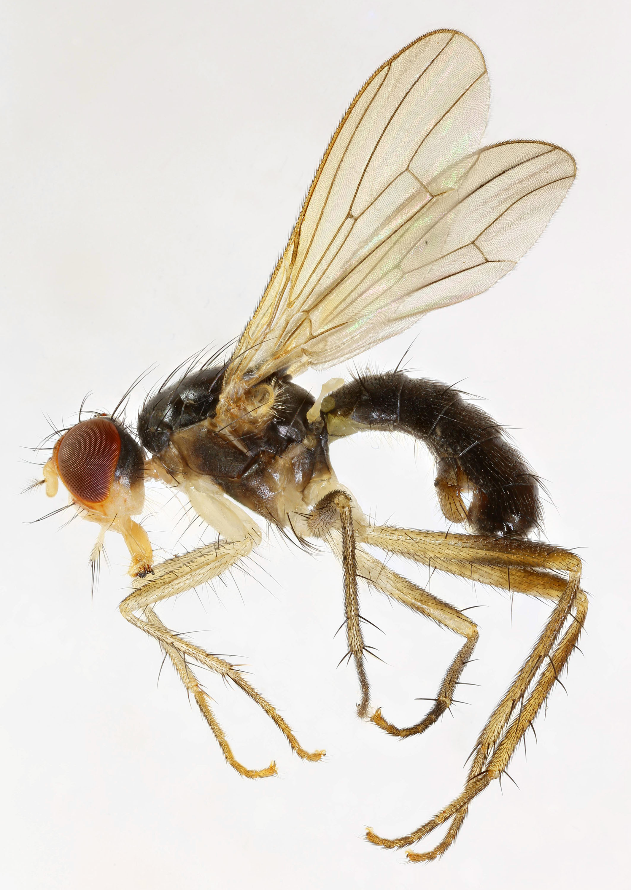 Cordilura albipes, Trawscoed, North Wales, June 2017